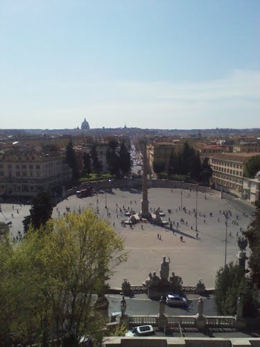 For more photos